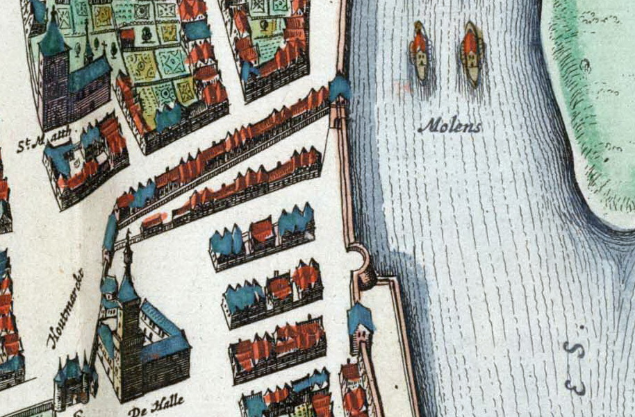 Maastricht, the Netherlands. Detail of a map of Maastricht from the Atlas van Loon (1649), showing the Market square, Kleine Gracht and the Meuse river. Along the river two city gates: Veerlinxpoort (top) and Molenpoort (bottom).